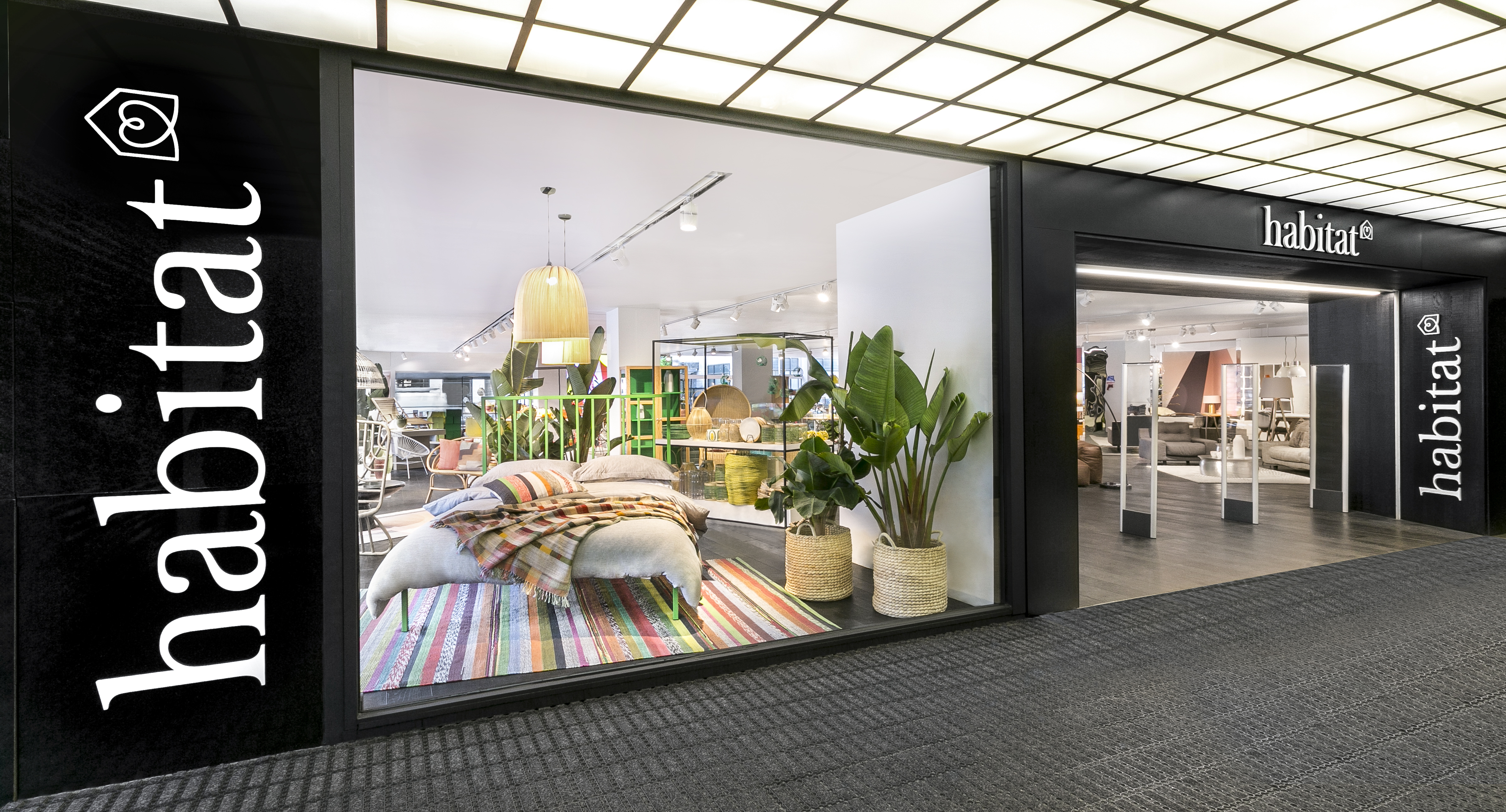 Habitat Tottenham Court Road Entrance April 2016. Photography credit